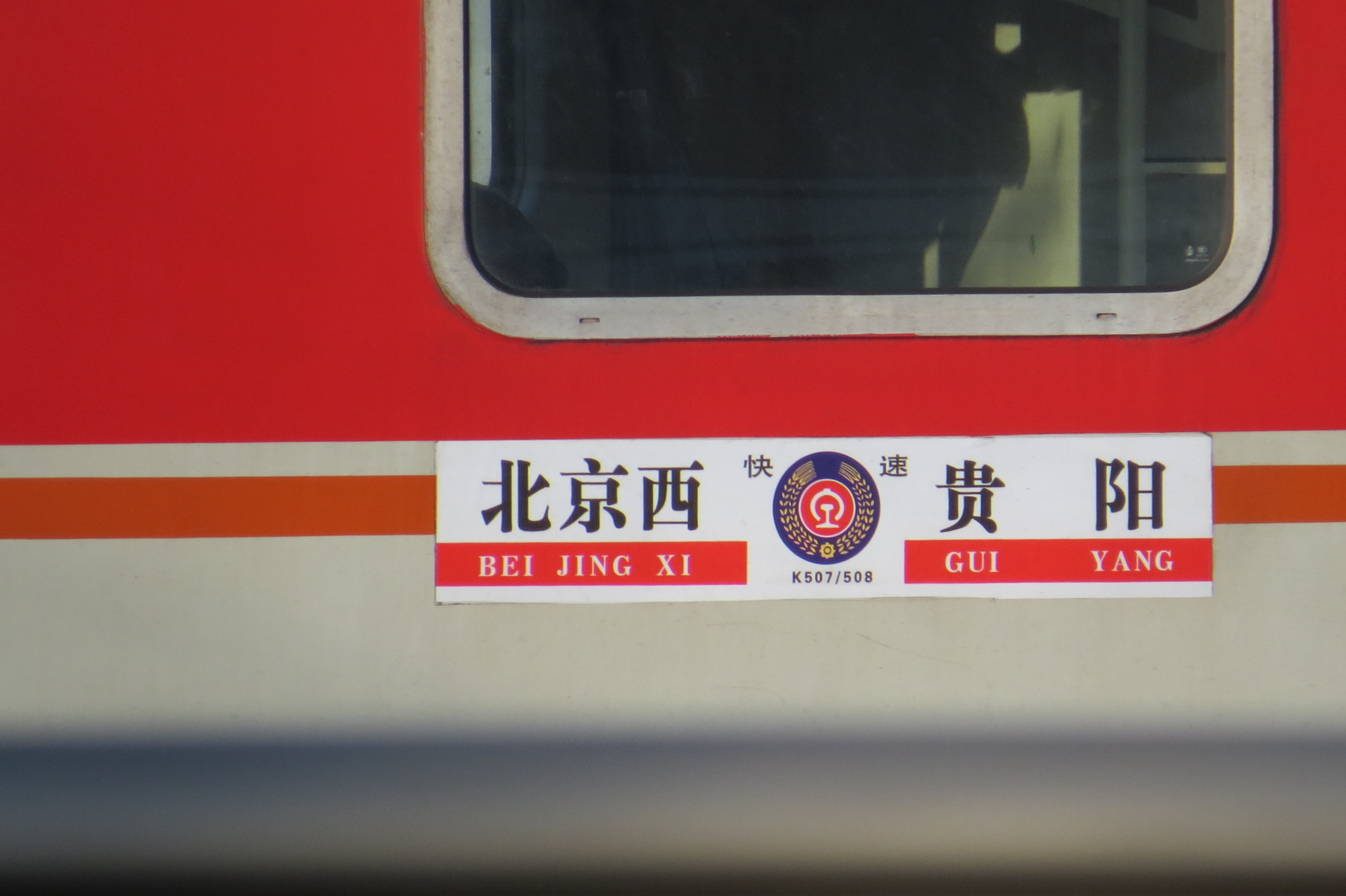 This train was initially for Zunyi.